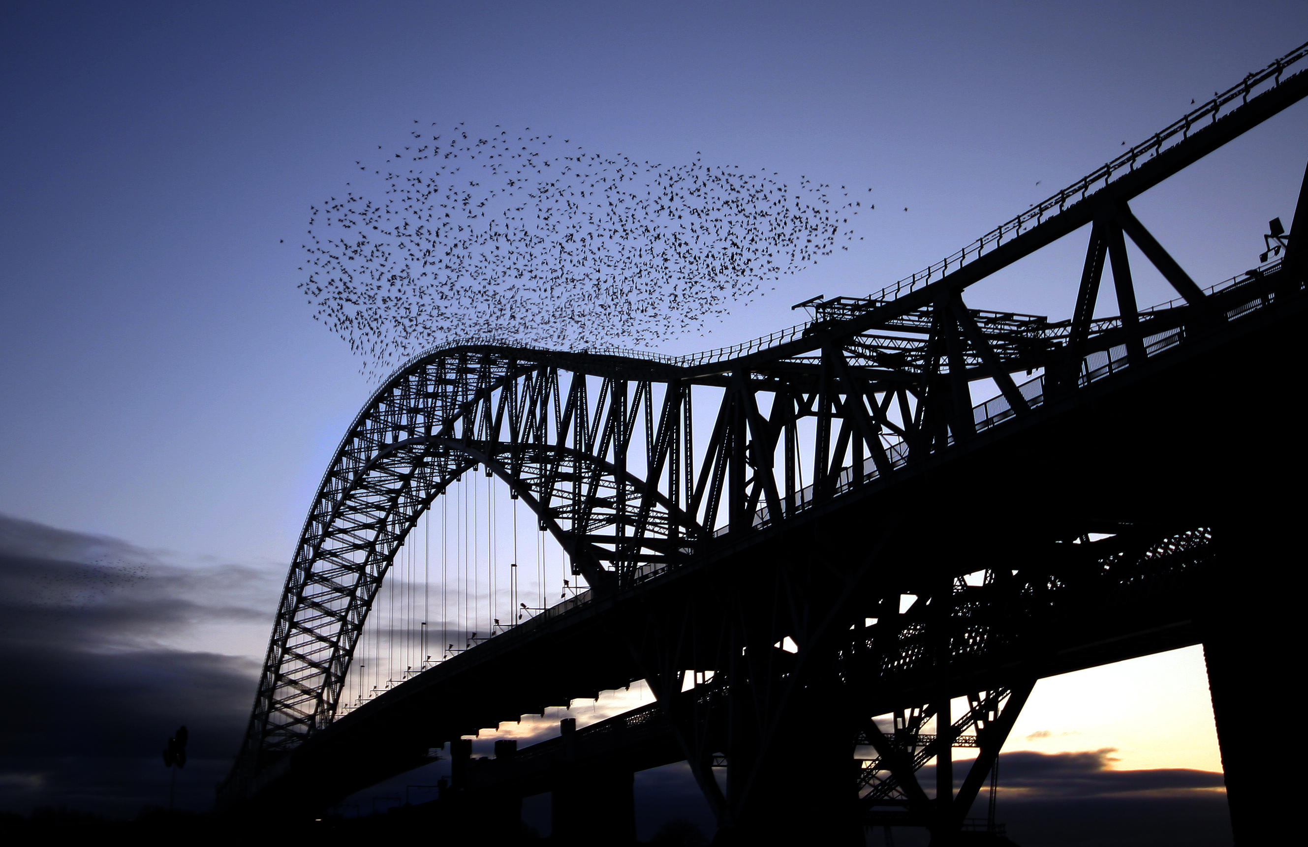 Runcorn Bridge The Starlings gather for the night and show there evening flying display